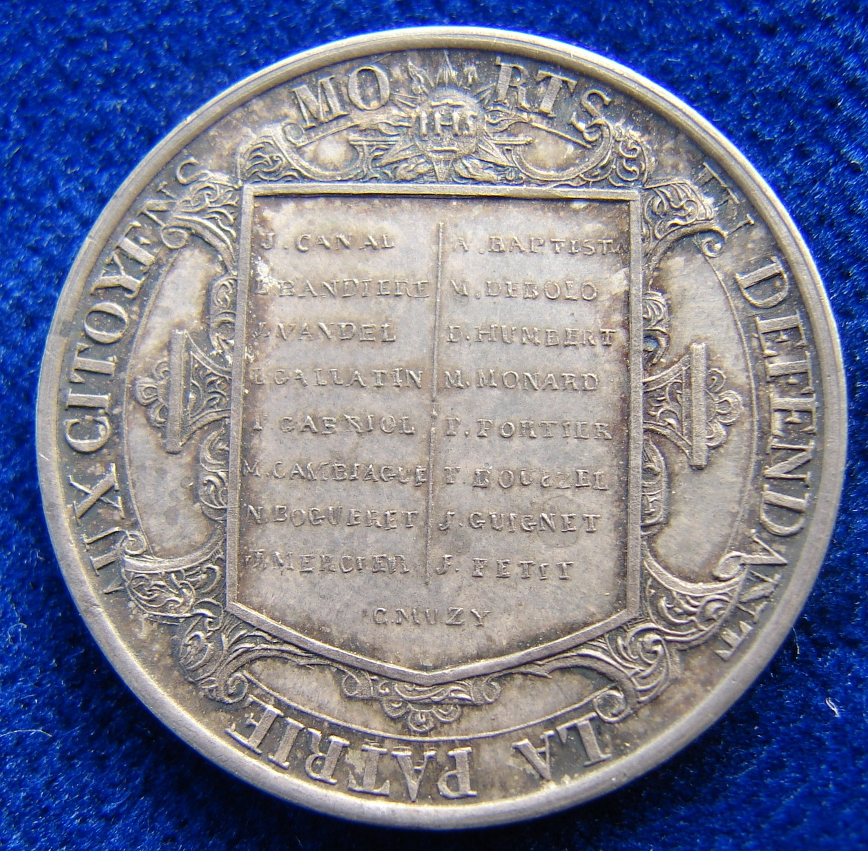 Diameter of this Silver medallion 25 mm. 6.56 g Ag. The arms of Geneva above 7 lines: "SI LE SEIGNEUR N´E ÛT SON PEUPLE ASISTÉ C´EN ÉTAIT FAIT SANS ESPOIR DE RETOUR PS CXXIV", around: "* SOUVENIR DU XII DECEMBRE MDCII * 1840 *"/ On a plaque the names of 17 Genevois directly killed in the battle of 12 December 1602 against the forces of the Duke of Savoy. An 18th citizen died one year later because of his injuries suffered in that battle. Around: "LA PATRIE AUX CITOYENS MORTS EN DEFENDANT LA PATRIE". Medallist: Antoine Bovy, 1795 Geneva - 1877 Geneva. Condition: EXTREMELY FINE+, old patina.